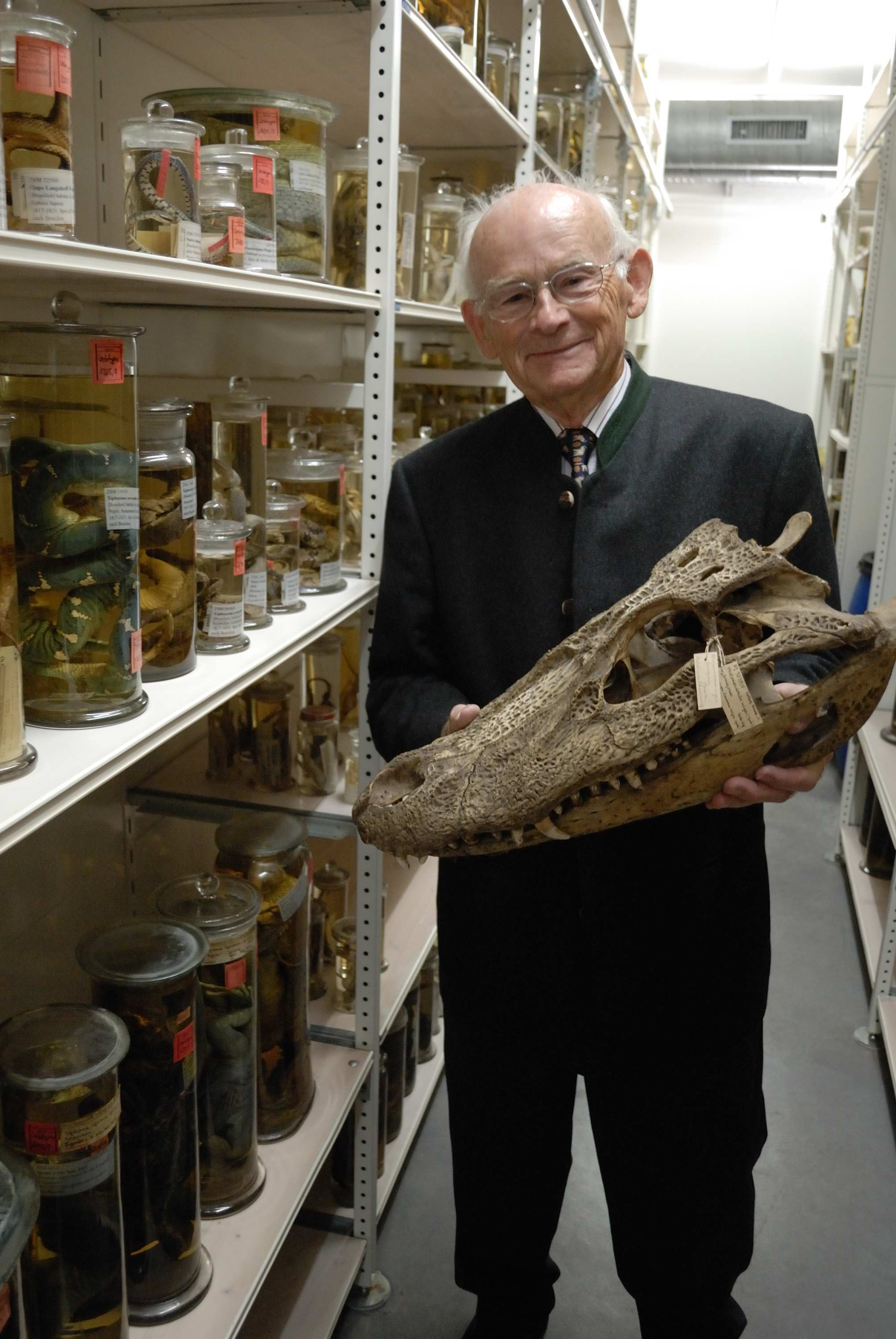 Portrait of Ernst Josef Fittkau, in the Zoologische Staatssammlung München